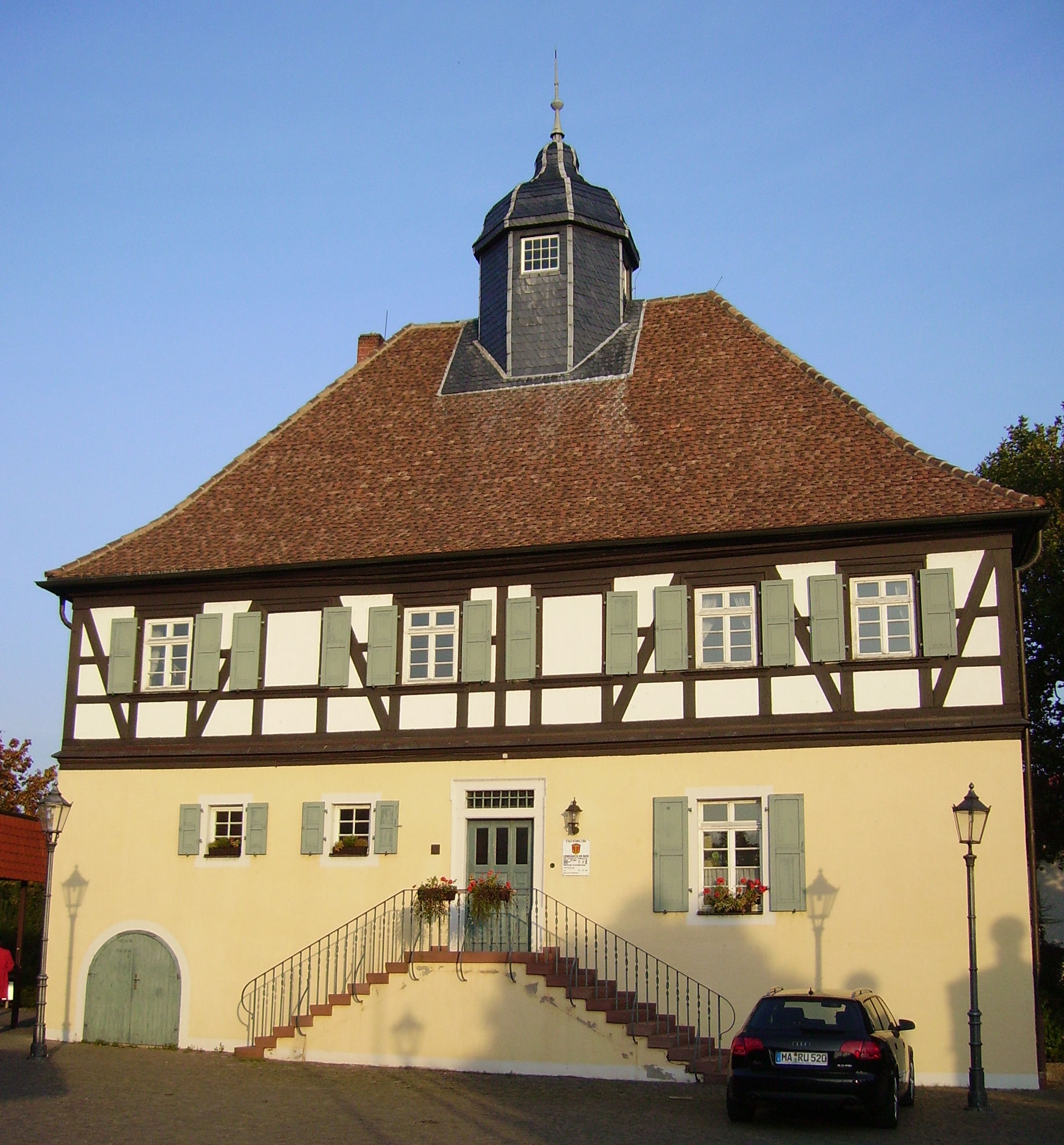 townhall of Ruchheim, part of Ludwigshafen, Rhineland-Palatinate (Germany)